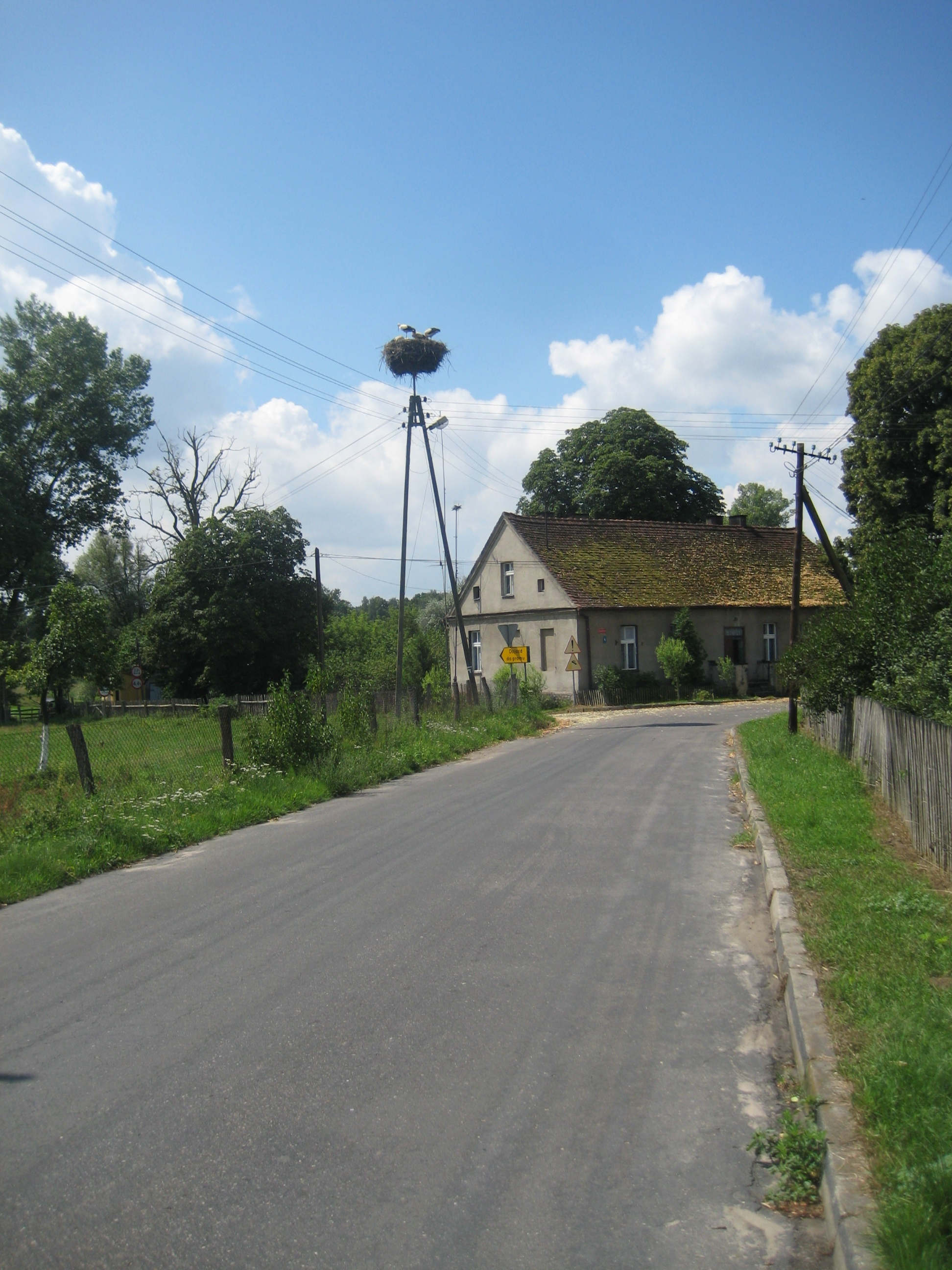 Zatom Nowy - village in Poland